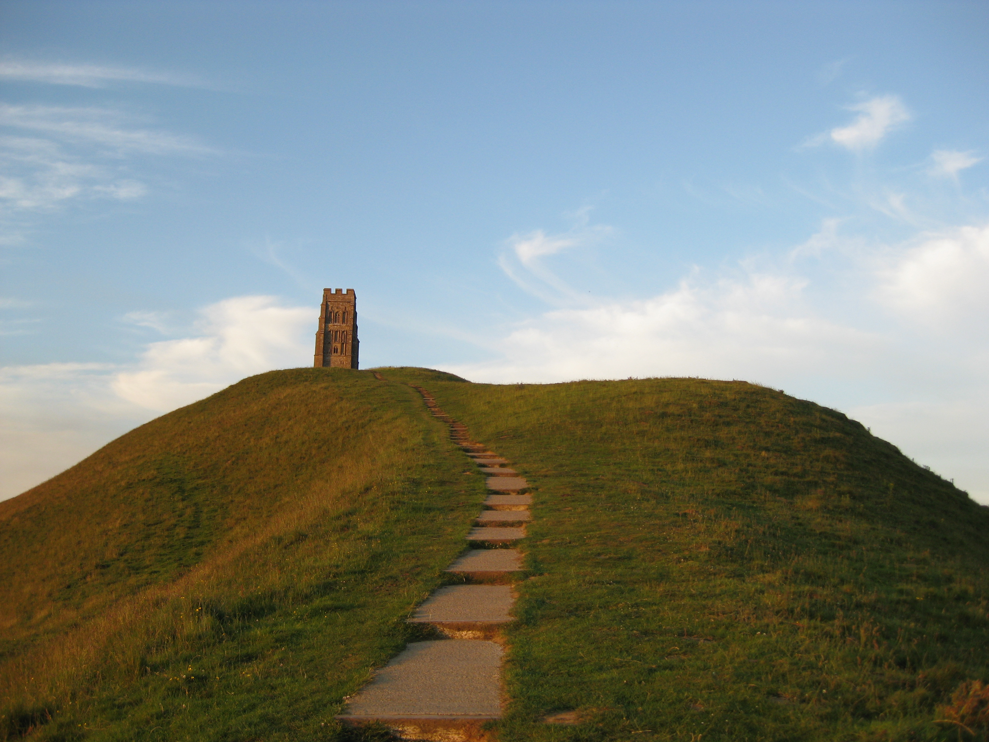 Glastonbury Tor in 2009.